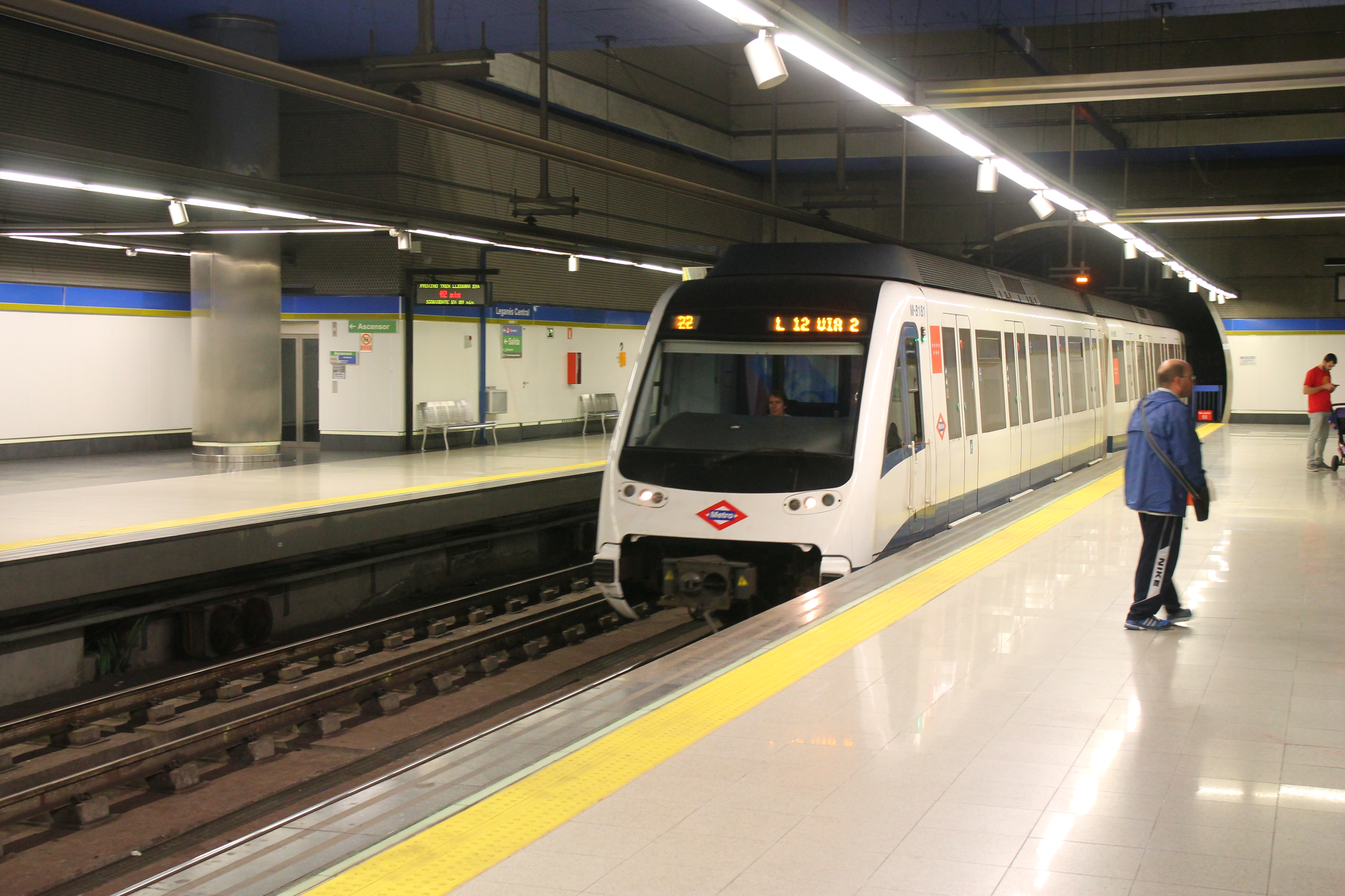 Leganés Central metro station, line 12, Madrid, tren serie 8000